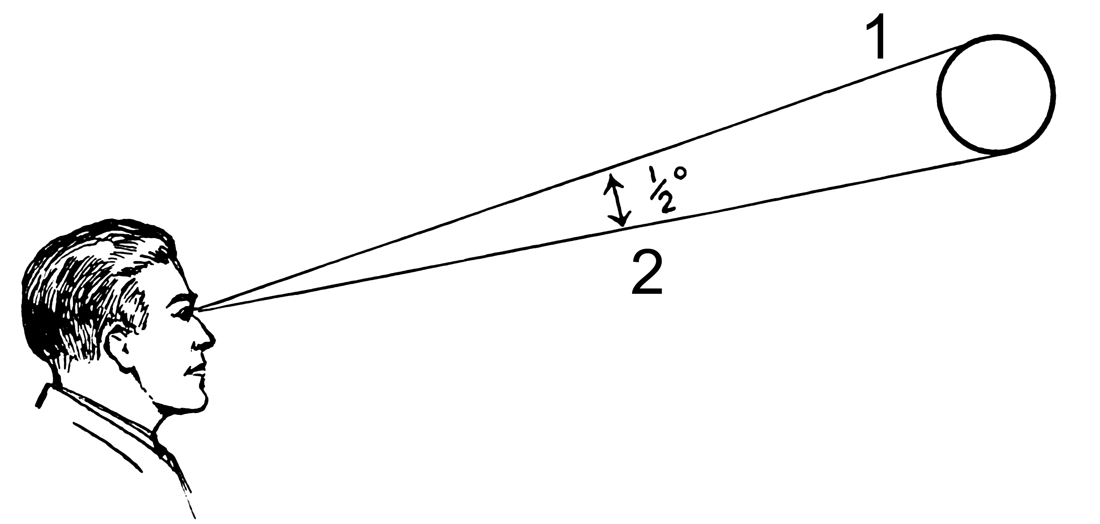 Line art drawing of apparent diameter Moon's diameter: 2,000 miles 240,000 miles